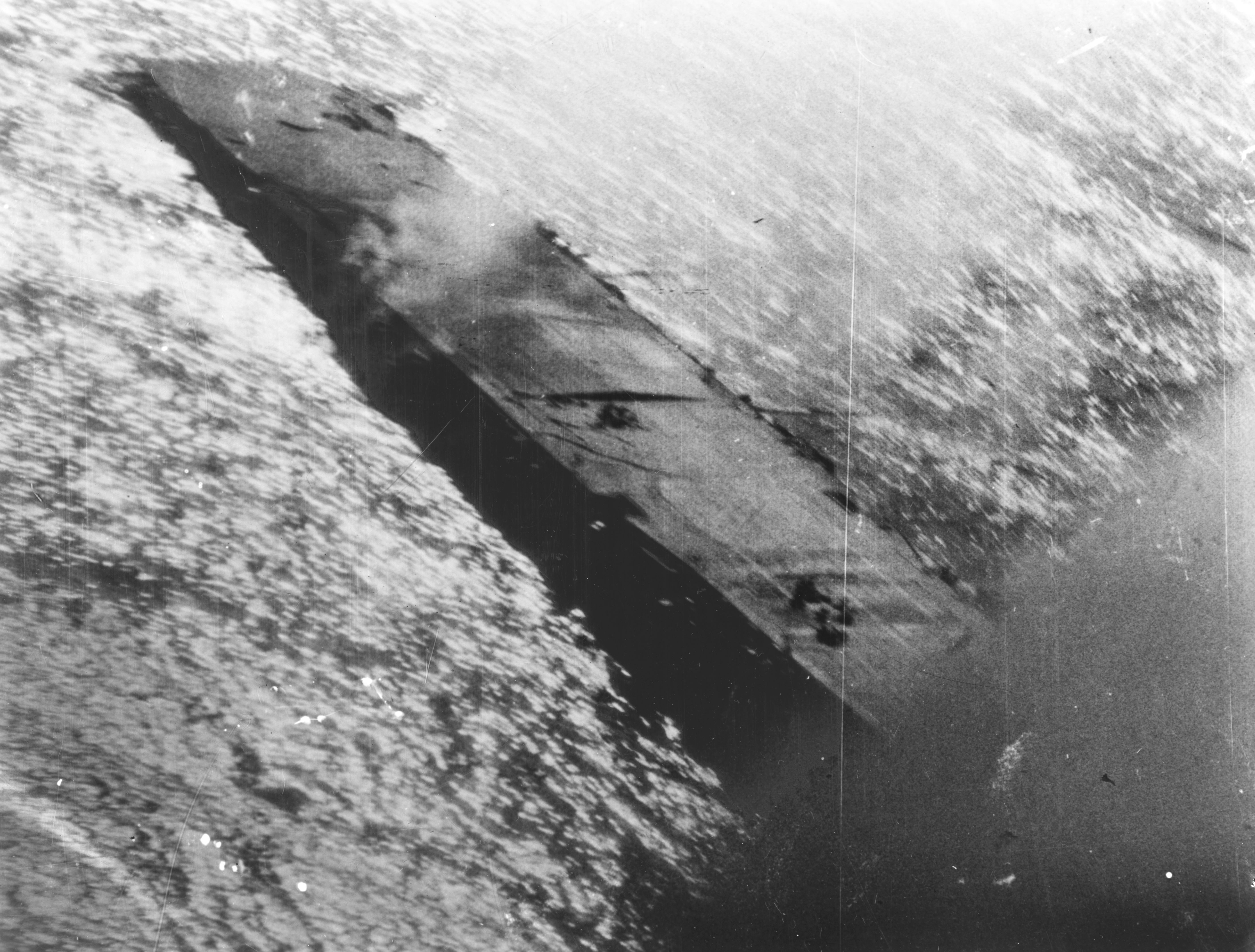 The Japanese aircraft carrier Zuihō sinking during the Battle of Cape Engano, 24 October 1944. The photo was taken by a plane from the U.S. Navy aircraft carrier USS Franklin (CV-13).